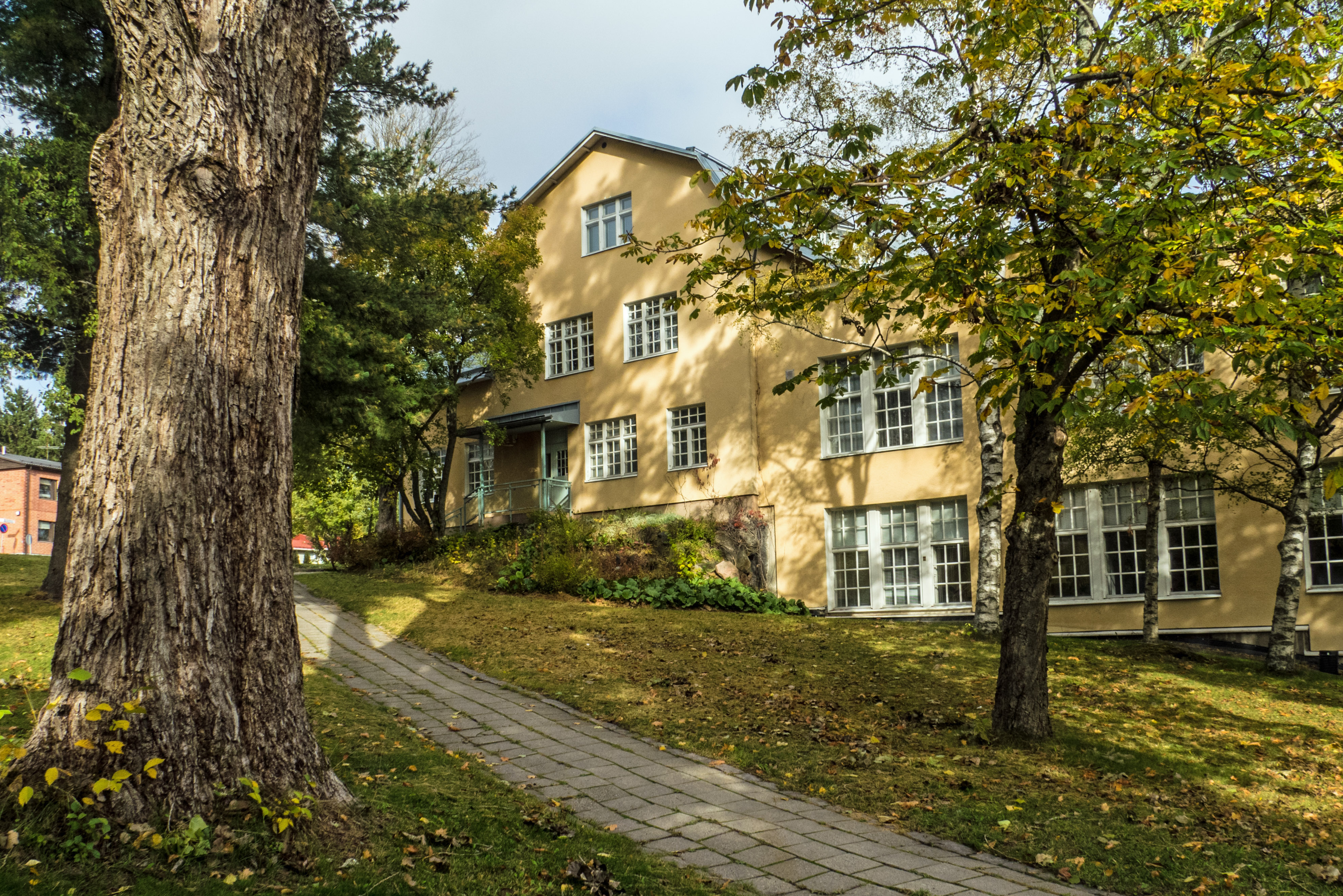 Former Kutomo & Punomo strap weaving factory in Kärsämäki, Turku, Finland. Now used for adult education purposes (Turun aikuiskoulutuskeskus).